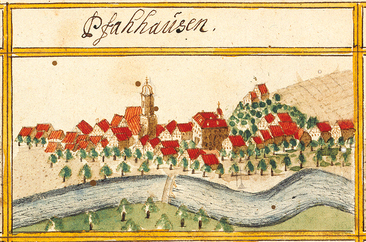 View of Pfauhausen, today part of Wernau, from the forest register books created by Andreas Kieser